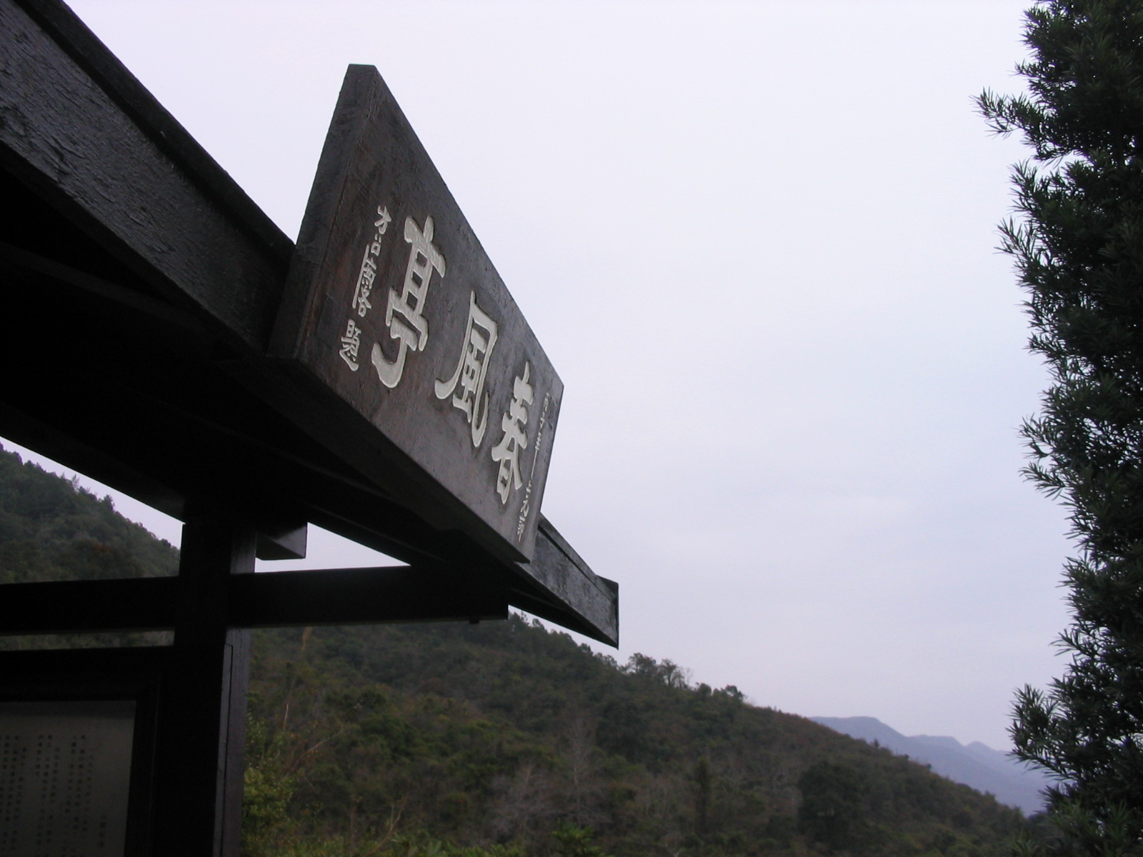 Taken by user user:Ngchikit on 11 Feb 2005.